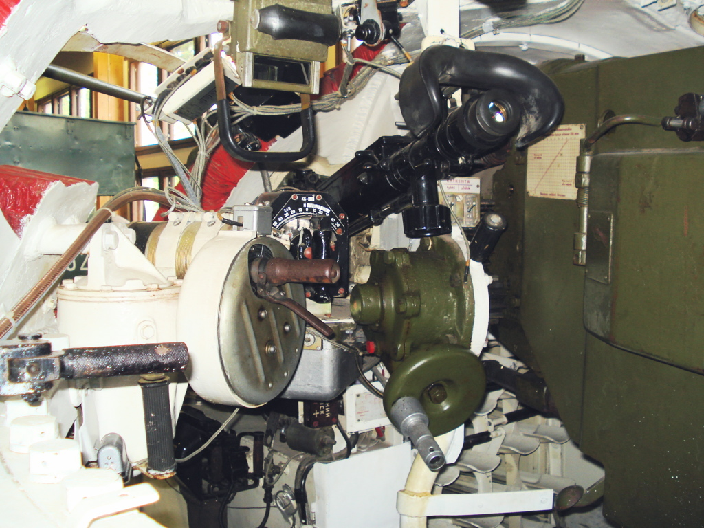 Russian T-54 tank, used by Finland. This model was cut open in for training purposes. Various systems of the tank have been illustrated with different colors. View of the gunner's station in the front-left part of the turret. Finnish Tank Museum (Panssarimuseo) in Parola.